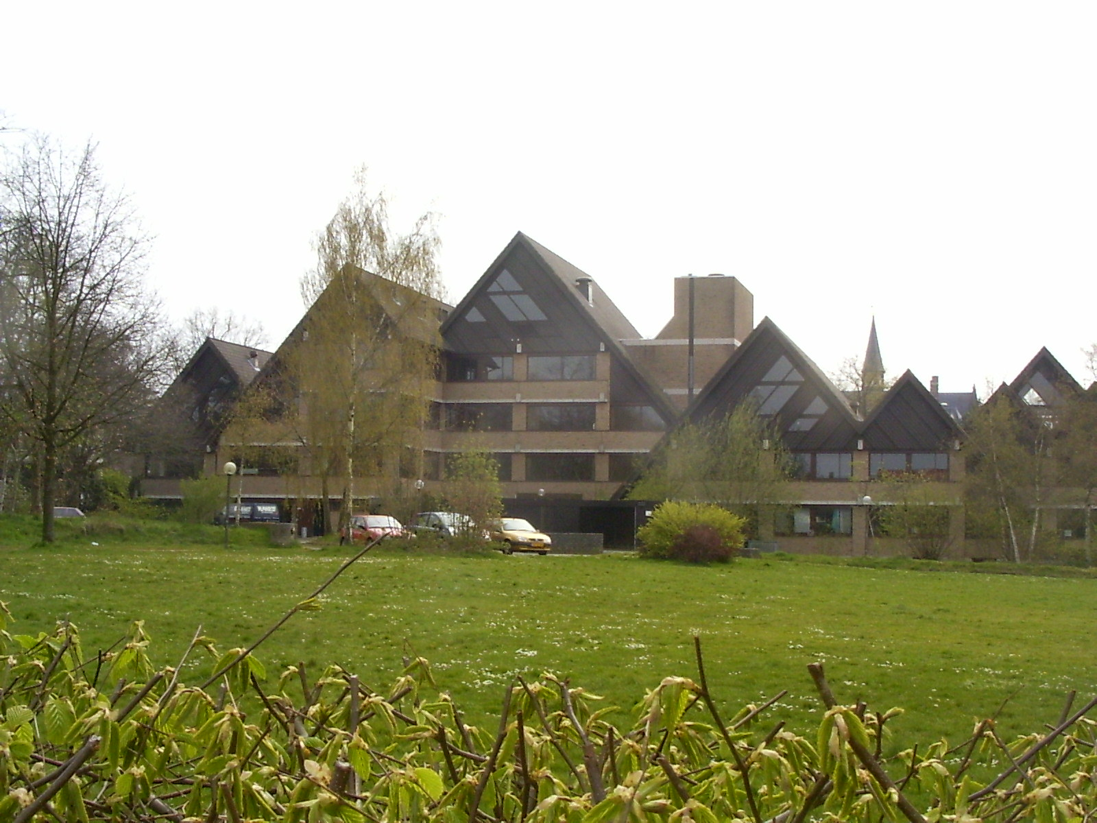 Jan Kopshouse from the north